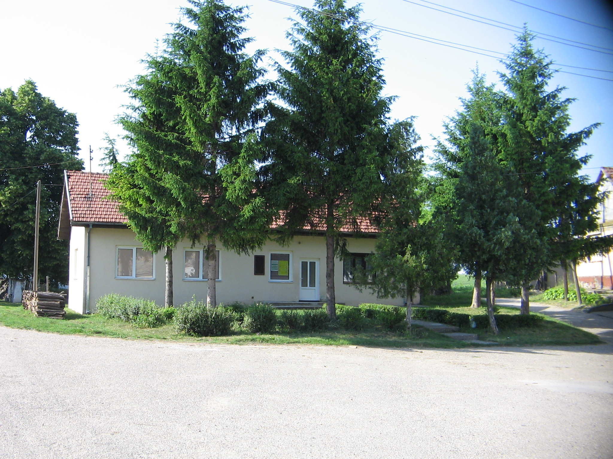 Image of the main square in Grabovo village, in Serbia.